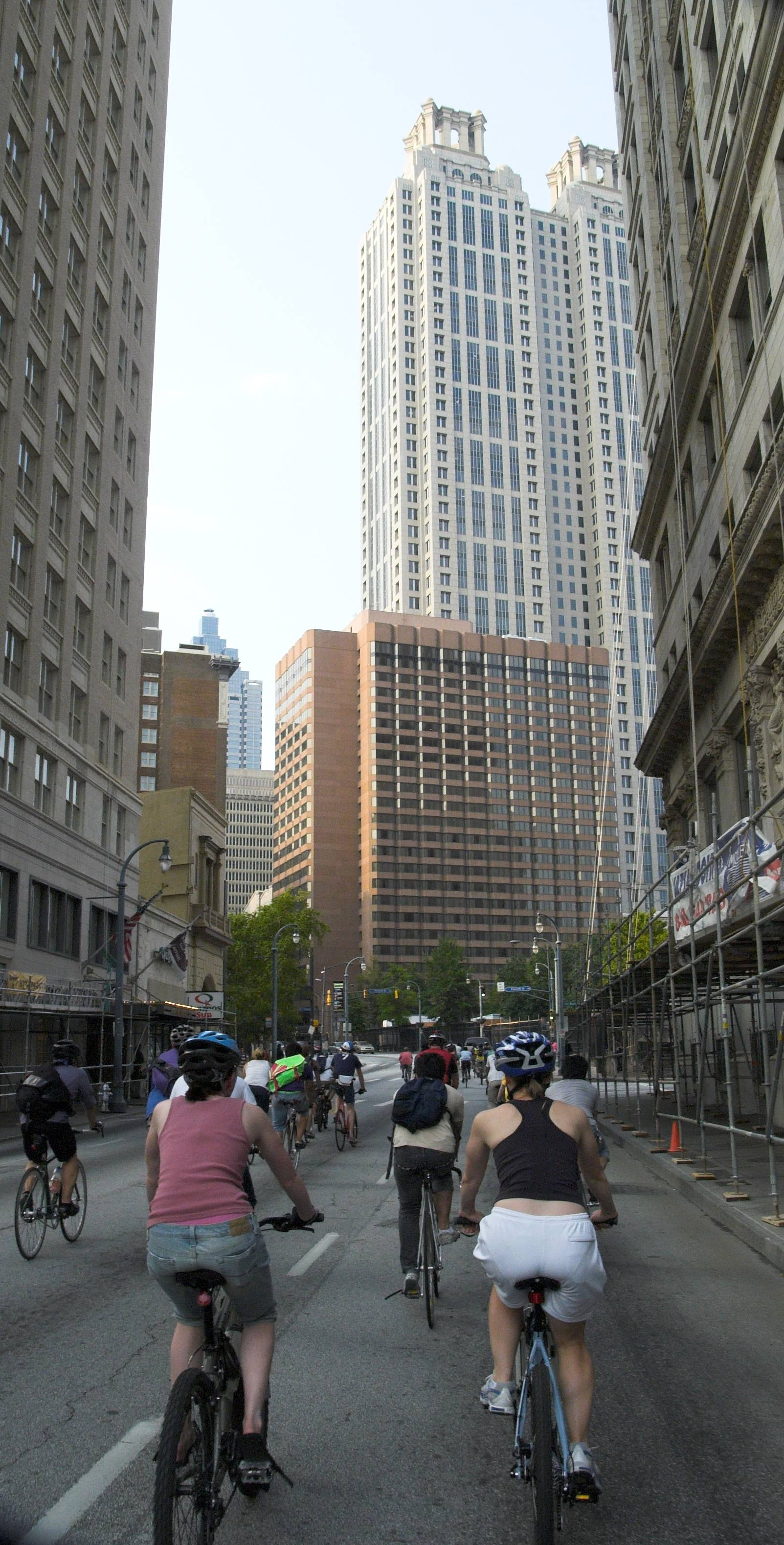 Cycling in Atlanta critical mass.